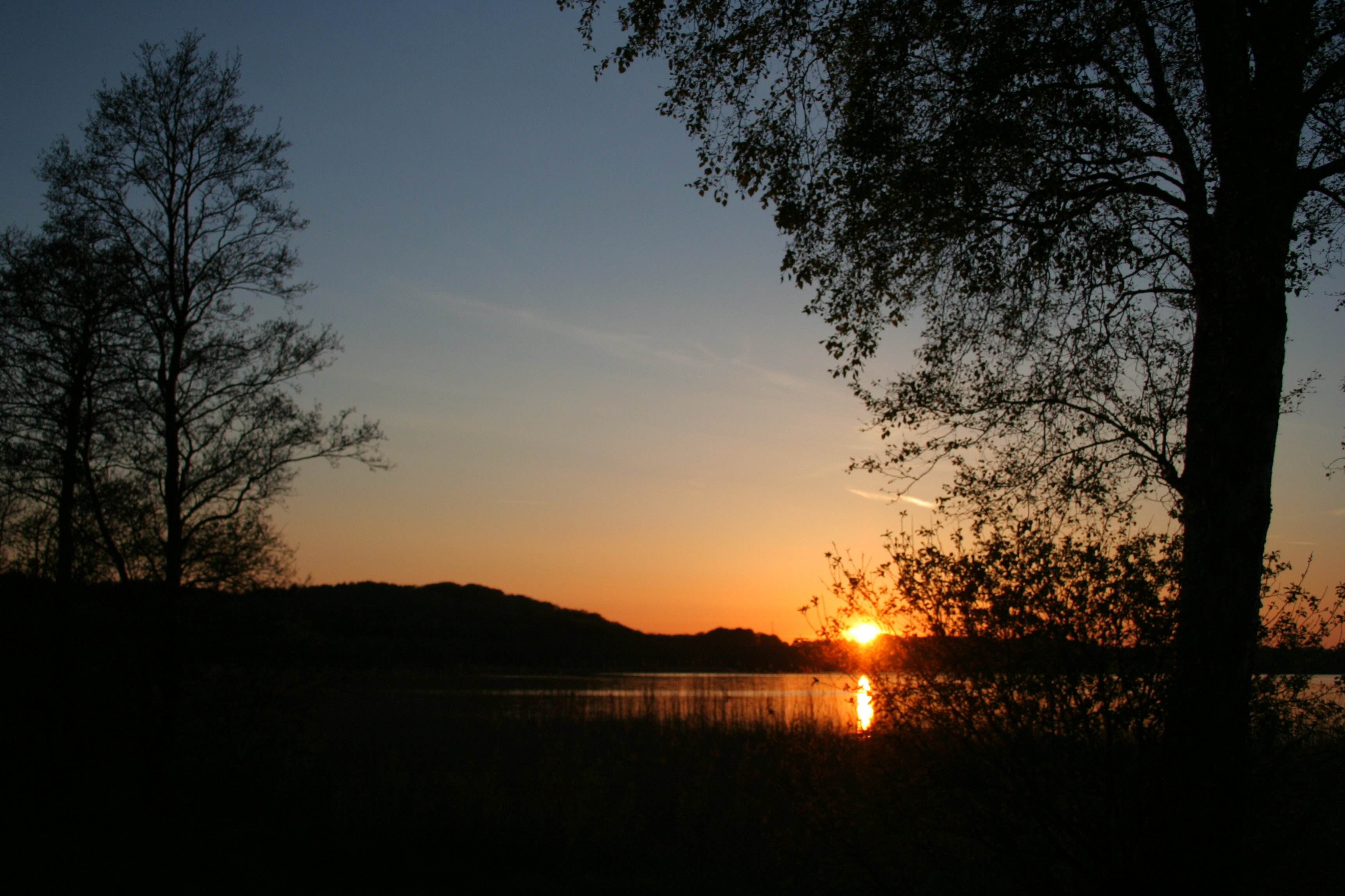 Evening at Arresø, Dronningholm, Denmark